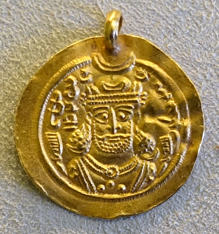 Exhibit in the Bode-Museum, Berlin, Germany. This work is in the public domain because the artist died more than 100 years ago.